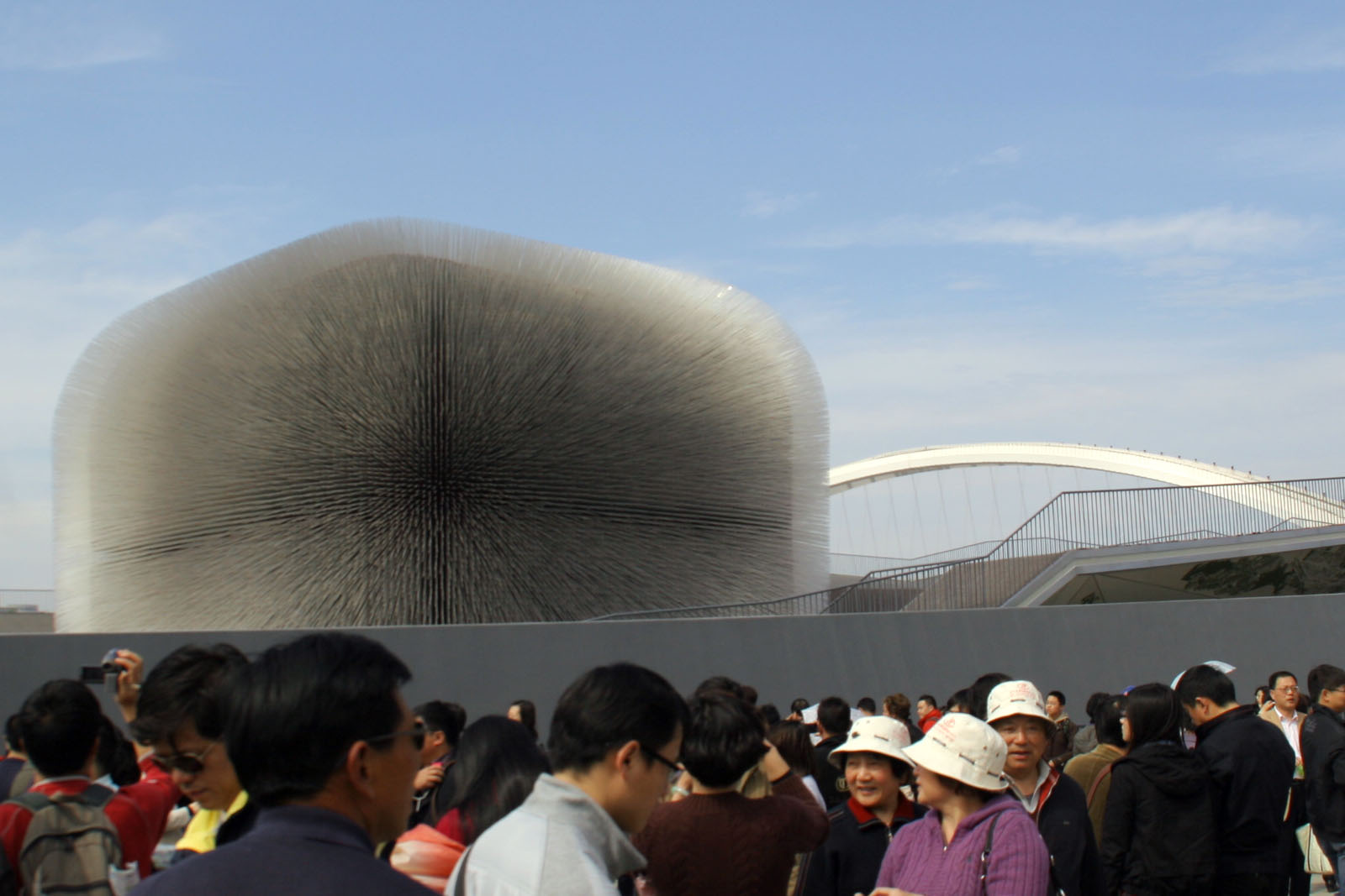 UK Pavilion of Expo 2010